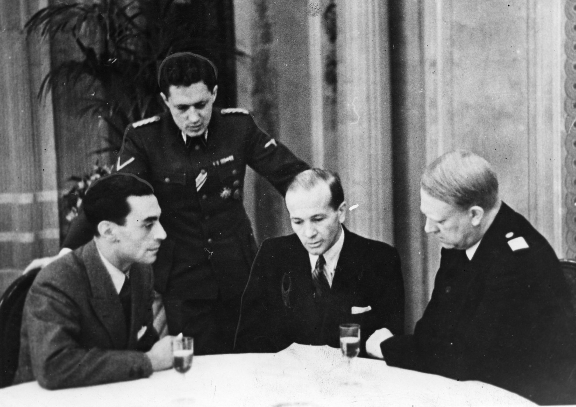 Flickr-album of 55 photos, description by Riksarkivet (National Archives of Norway): Vidkun Quisling, head of the collaborationist government in Norway from 1942 to 1945 during the German occupation in World War II, made ​​several trips to Germany in the period 1939-1945, and he had a total of 11 meetings with Adolf Hitler. Four of the meetings were state visits, and one of them took place in Berlin on 12-15. February 1942. In addition to the newly appointed Minister President, the group consisted of ministers Hagelin, Fuglesang and Stang and also Thorvald Thronsen, chief of staff in the Hird - the party's paramilitary organisation modelled on the Nazi German Sturmabteilungen.